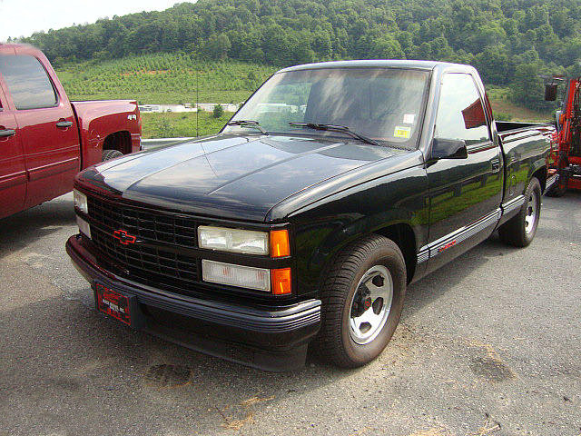 1990-1994 Chevrolet C1500 454SS